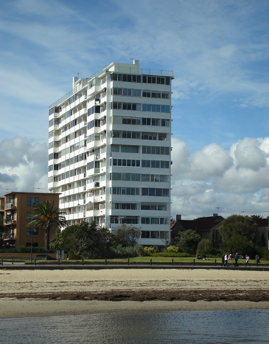 Photo taken from Brooks Jetty 2012